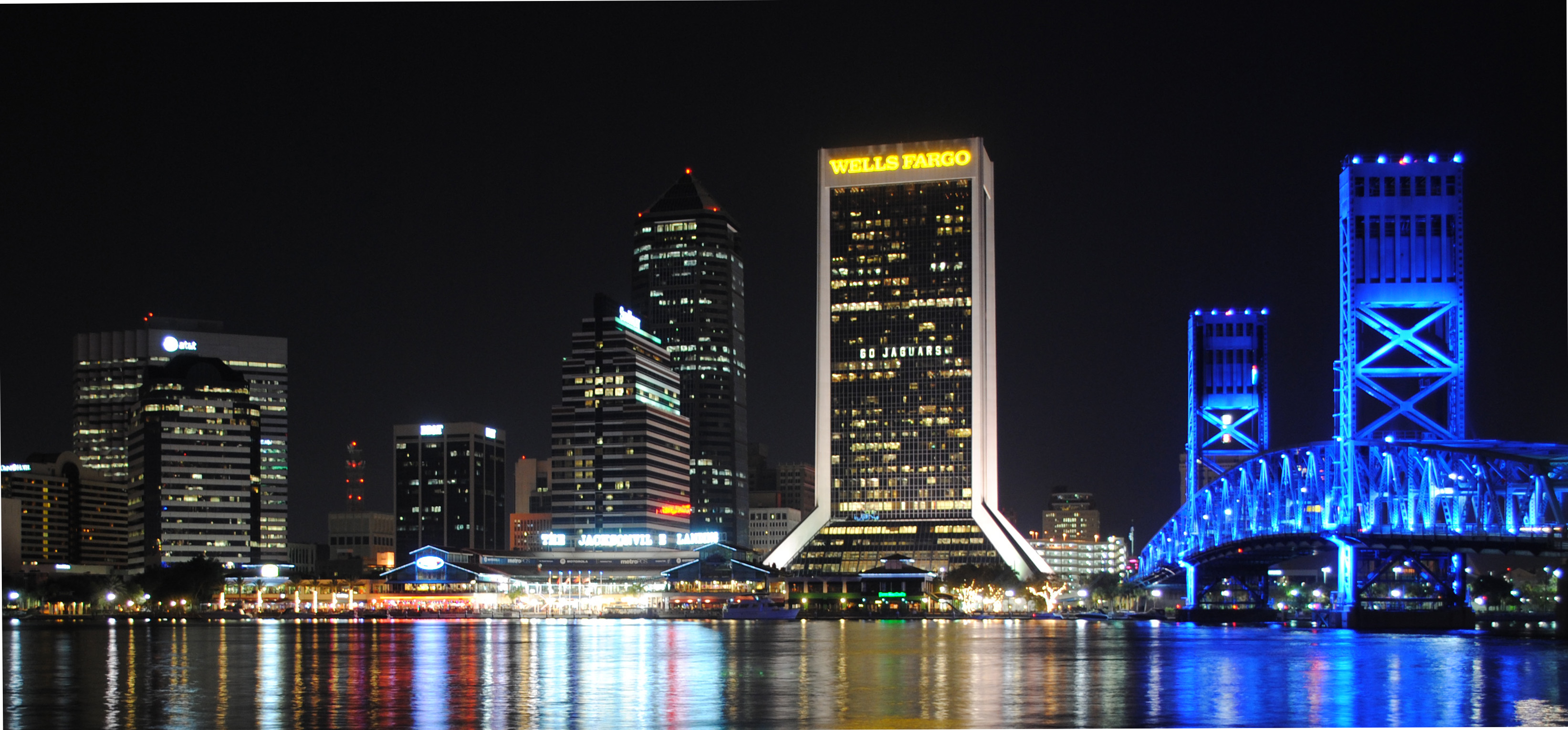 Downtown Jacksonville, Florida